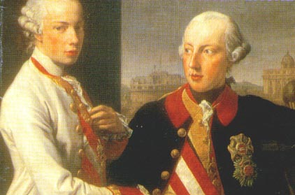 Emperor Joseph II (right) and his younger brother Grand Duke Leopold of Tuscany (left), who would later become Holy Roman Emperor as Leopold II.